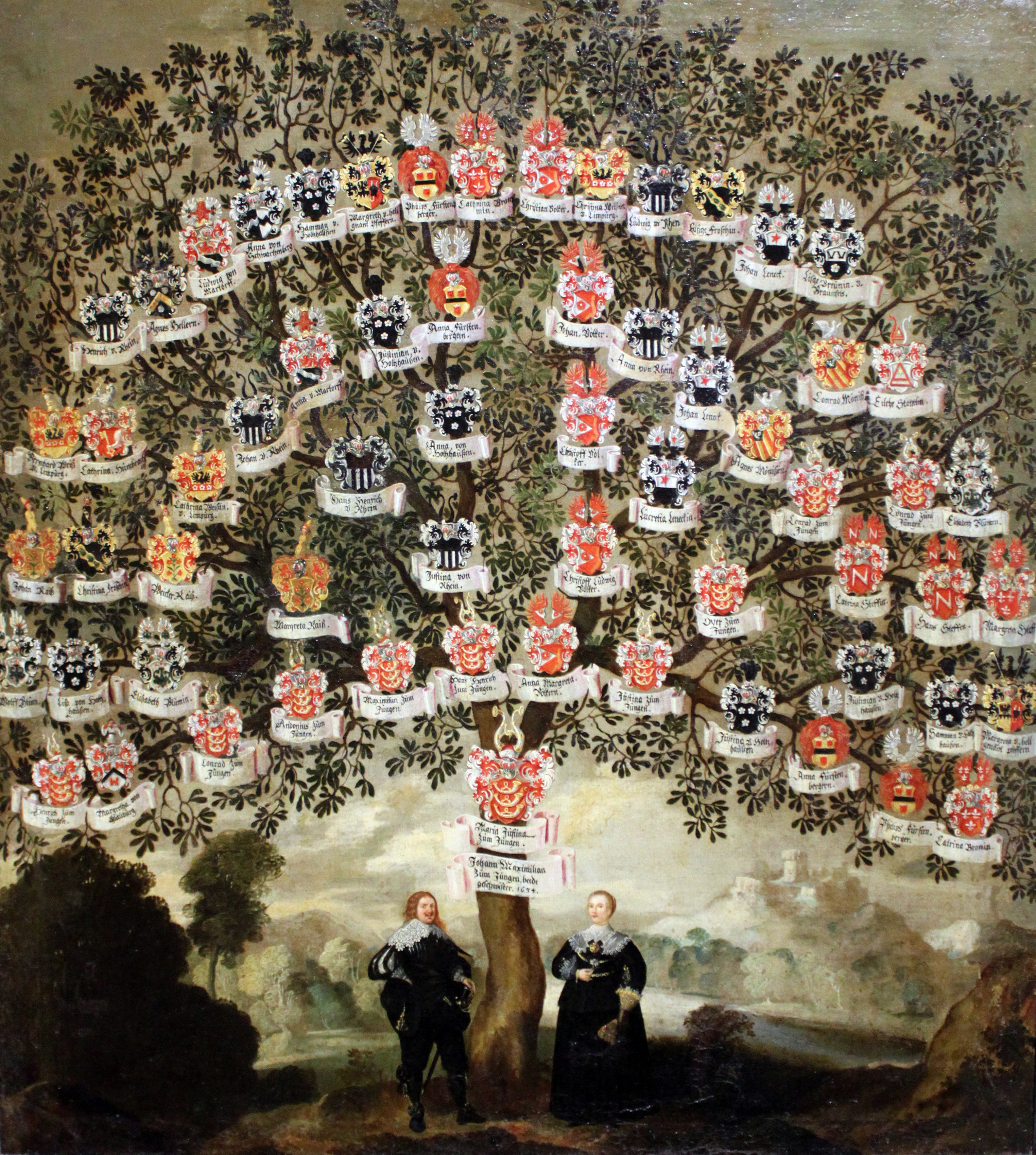 Genealogical Tree of Maria Justina und Johann Maximilian zum Jungen